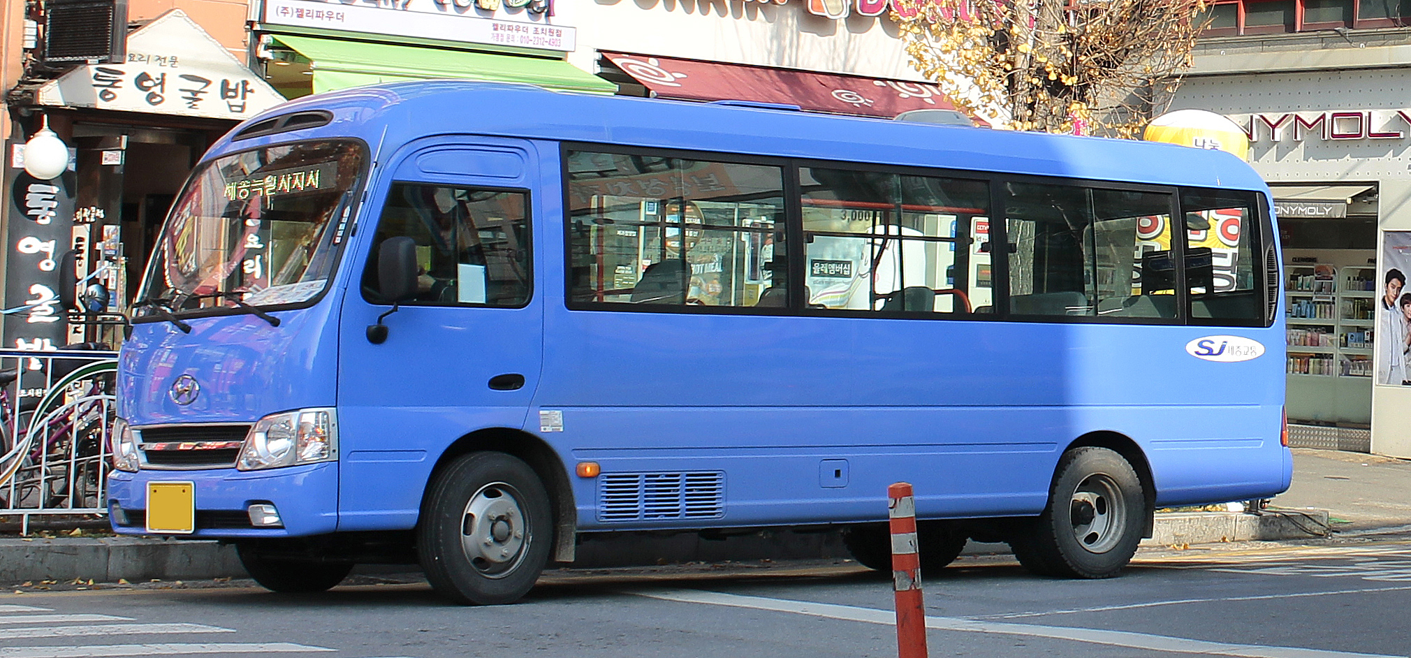 SJT Hyundai County Motorcoach @Jochiwon station